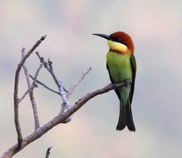 Like other bee-eaters, is a richly coloured, slender bird. It is predominantly green, with blue on the rump and lower belly. Its face and throat are yellow with a black eye stripe, and the crown and nape are rich chestnut. The thin curved bill is black. Sexes are alike, but young birds are duller. Forehead, crown, nape, upper back and ear-coverts bright chestnut ; lores black, continued as a band under the eye and ear-coverts ; wing-coverts, lower back and tertiaries green, the latter tipped with bluish; rump and upper tail-coverts pale shining blue; primaries and secondaries green, rufous on the inner webs, and all tipped dusky ; central tail-feathers bluish on the outer, and green on the inner webs ; the others green, margined on the inner web with brown and all tipped dusky ; sides of face, chin and throat yellow ; below this a broad band of chestnut extending to the sides of the neck and meeting the chestnut of the upper plumage ; below this again a short distinct band of black and then an ill-defined band of yellow ; remainder of lower plumage green, tipped with blue, especially on the vent and under tail-coverts.